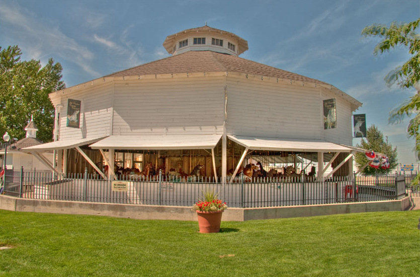 One side of the Elitch Gardens Carousel, located at the Kit Carson County Fairgrounds in Burlington, Colorado, United States. Built in 1905, it has been declared a National Historic Landmark.